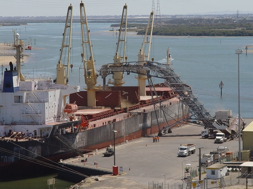 Australia's first fully mobile DSI Sandwich Belt High Angle Conveyor Shiploader